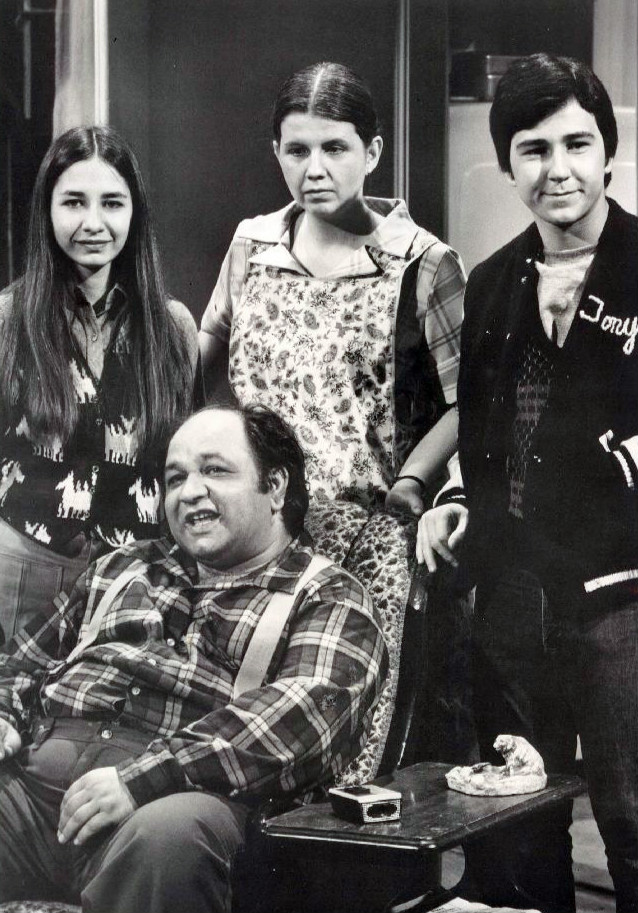 Photo of the cast of the television program The Super. Pictured are: Richard Castellano (Joe Girelli, seated). Standing, from left: Margaret Castellano (daughter), Ardell Sheridan (wife), Bruce Kirby, Jr. (son).